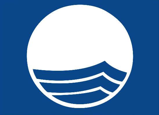 Official logo of the Blue Flag program